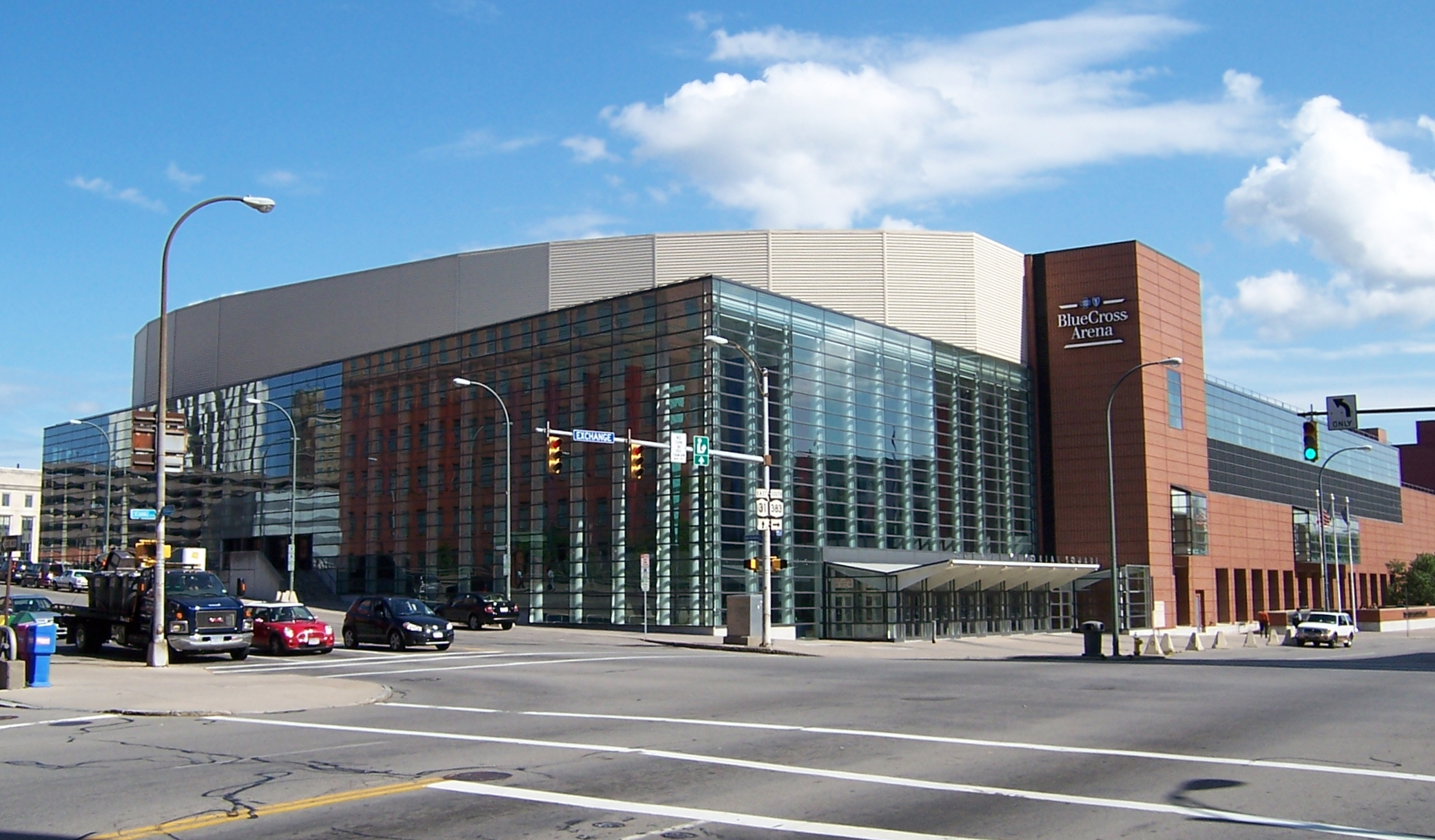 The Blue Cross Arena at the Community War Memorial in Rochester, New York. This is a multipurpose arena, built between 1951 and 1955 on a corner where the Genesee River and the Erie Canal once met. Originally named the Community War Memorial, the arena was renovated to its current appearance between 1996 and 1998, when it gained its current name. The arena is home to the Rochester Americans hockey team, Rochester Knighthawks lacrosse team, and the Rochester Razorsharks basketball team. It also hosts other events including circuses, and concerts. New York State Route 31 runs west to east (front right to middle left) along West Broad Street in the foreground. The Broad Street Bridge, the former Erie Canal aqueduct, is just beyond the left side of the picture. New York State Route 383 begins at this intersection and heads south (back right) along Exchange Boulevard.